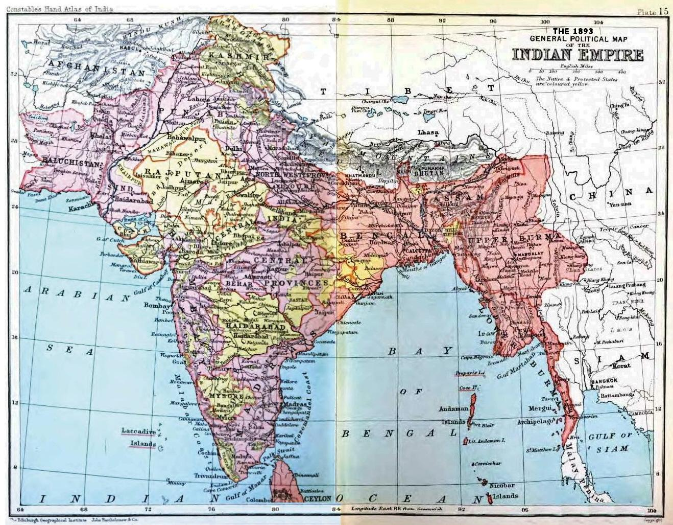 Map, "Political Map of the Indian Empire, 1893" from Constable's Hand Atlas of India, London: Archibald Constable and Sons, 1893. Uploaded by Fowler&fowler«Talk» 23:20, 13 February 2009 (UTC)